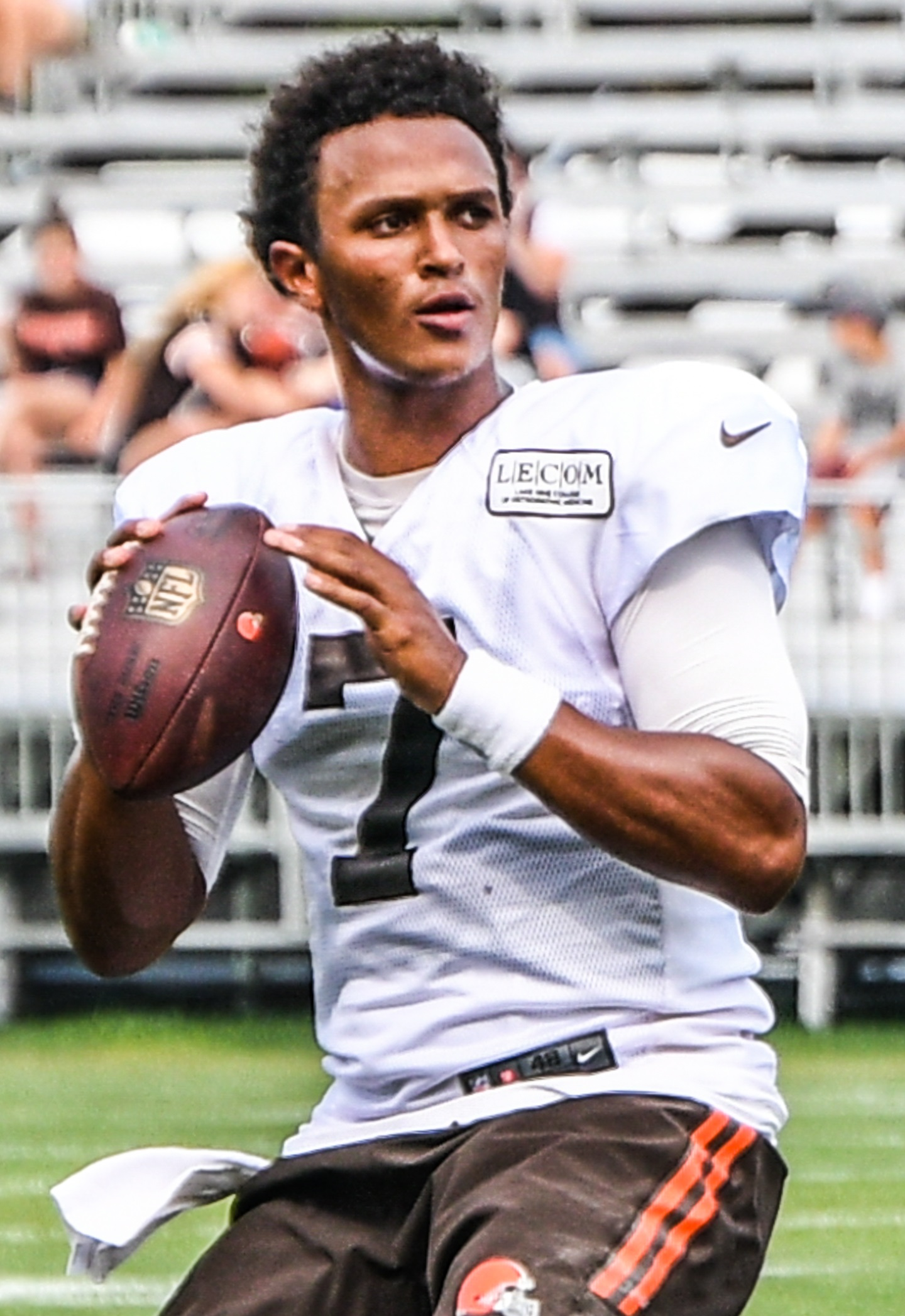 Deshone Kizer in 2017 Browns' training camp